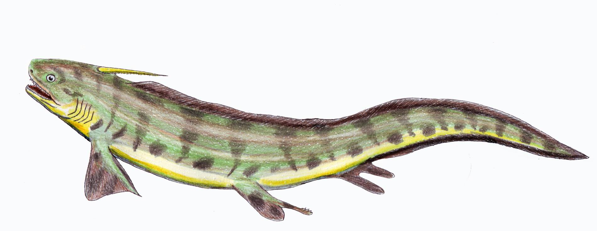 Triodus sesselensis, a primitive shark-like elasmobranchii from the Permian period